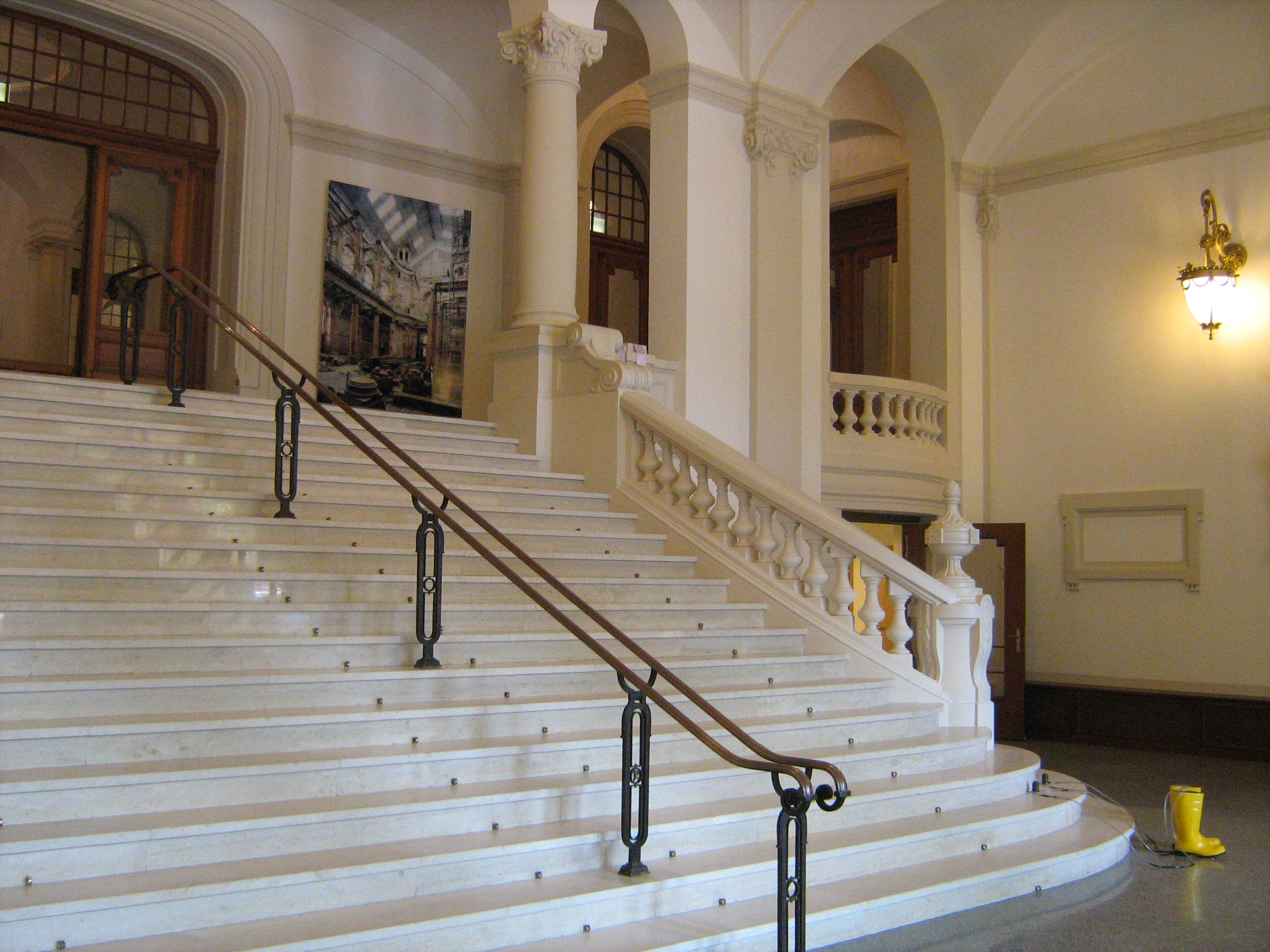 Cercle Municipal, Luxembourg. The foyer staircase after extensive renovation.